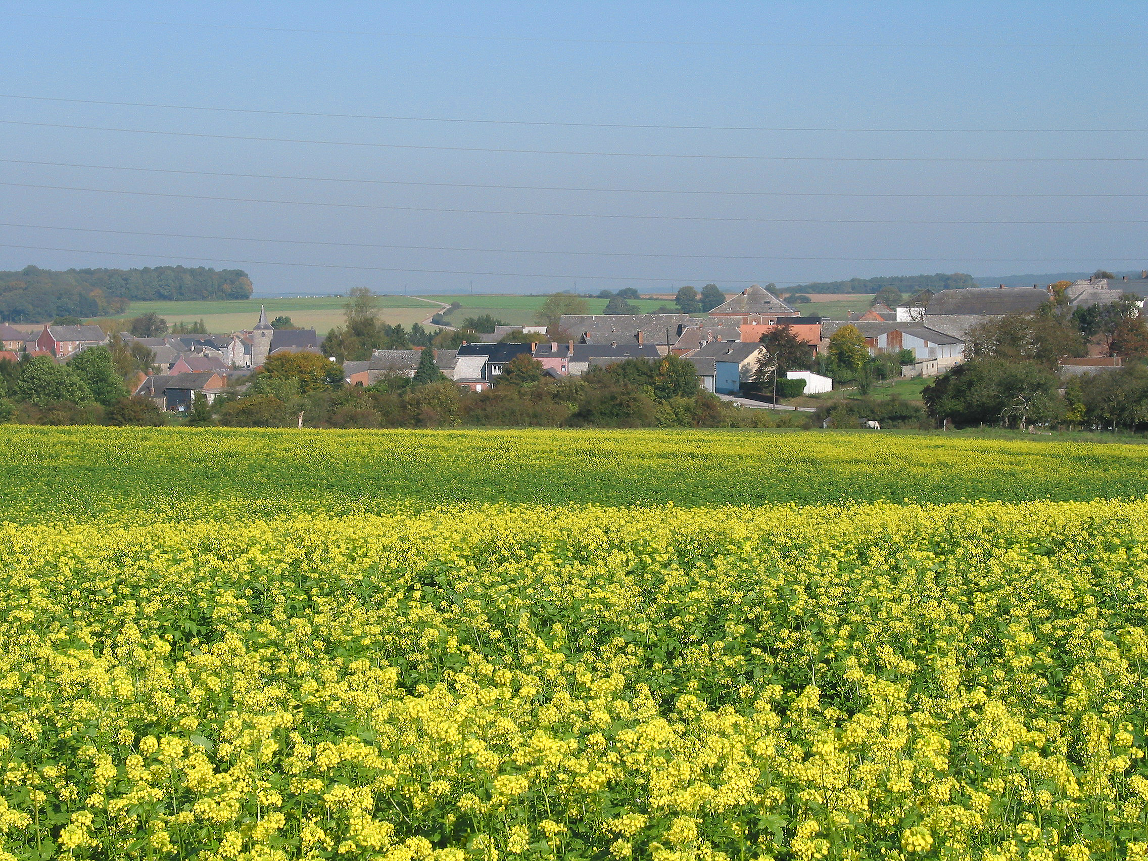 Daussois (Belgium), the village in the autumn.